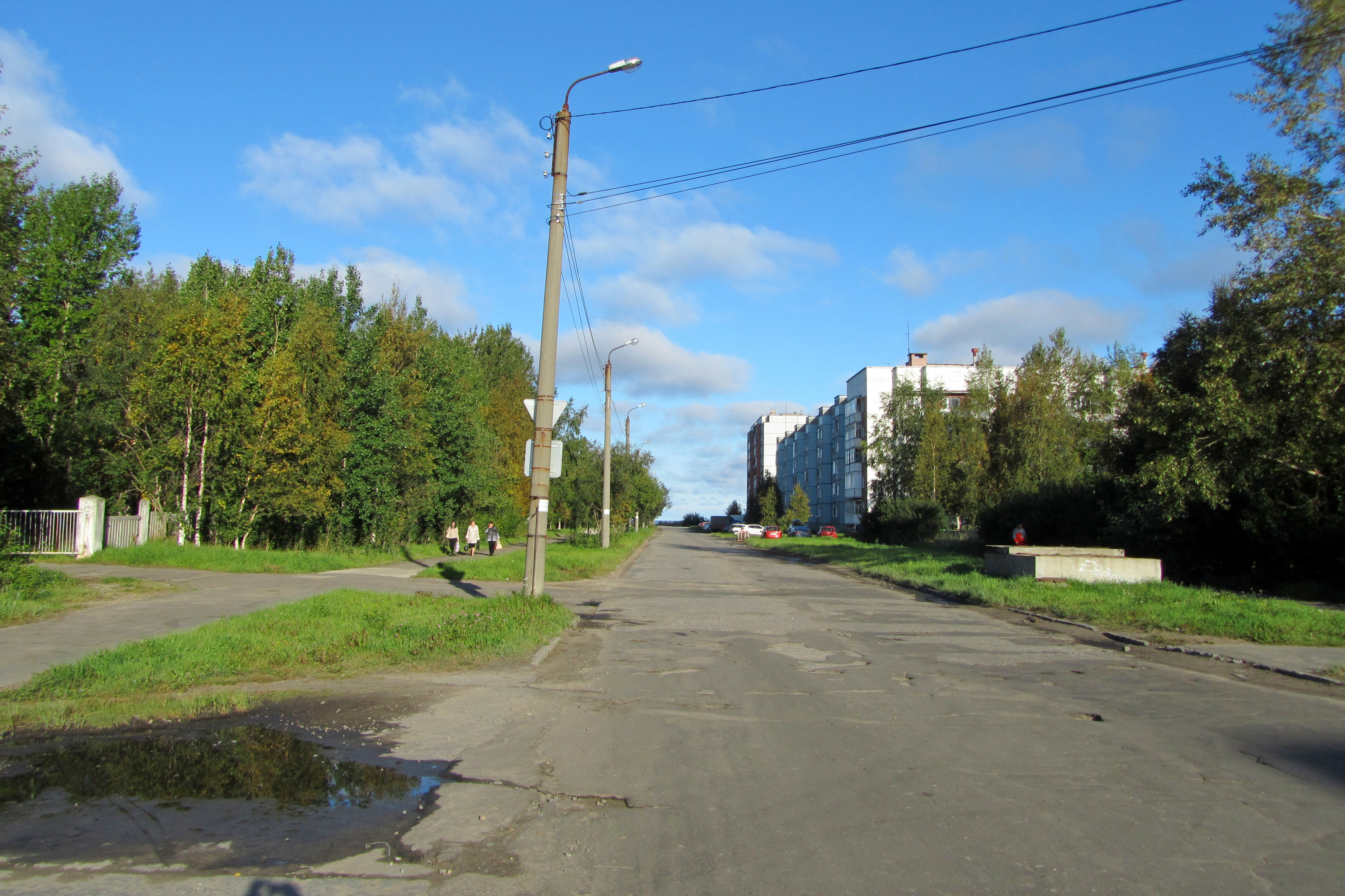 Makarenko Street, Severodvinsk